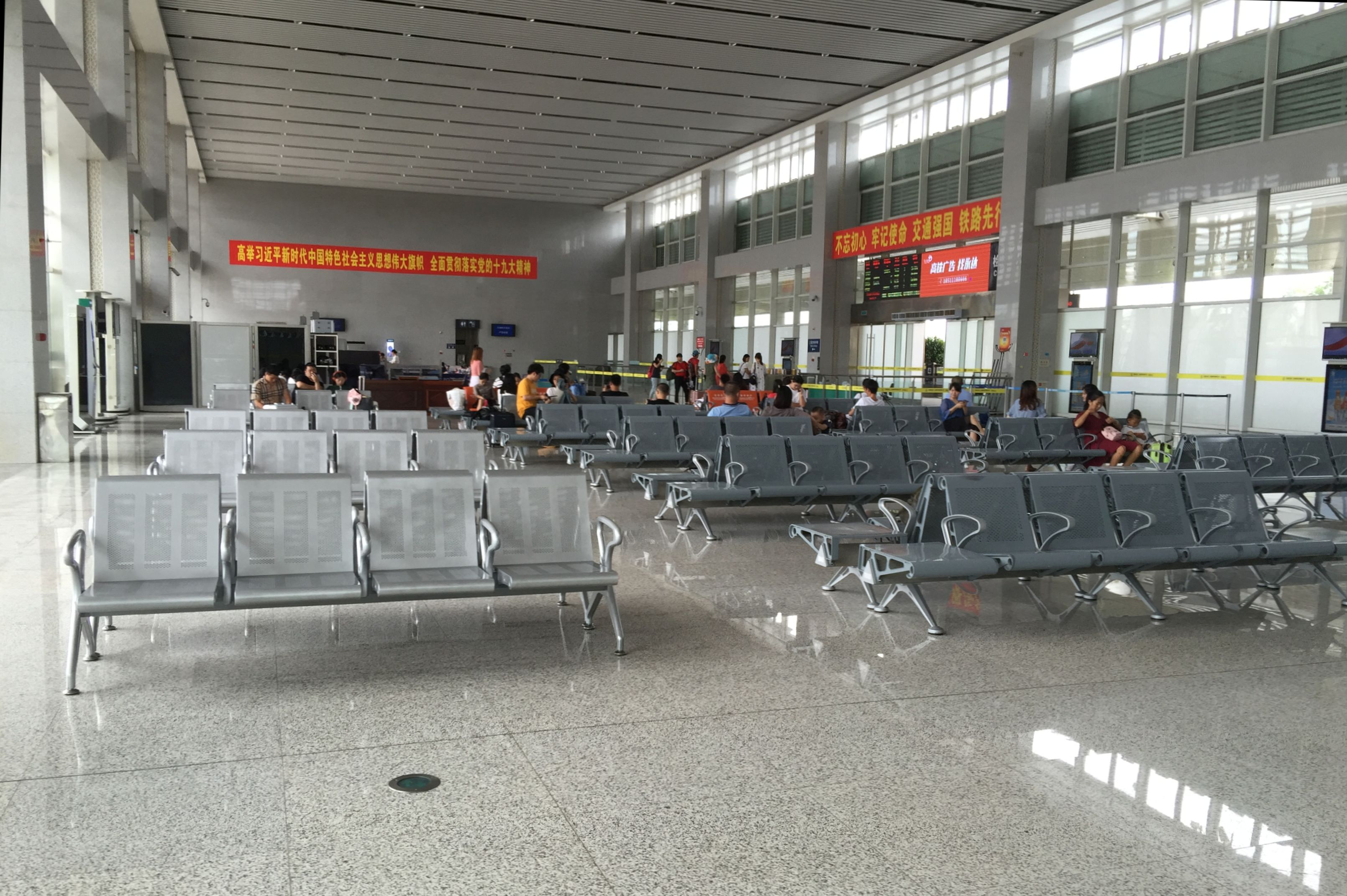 Boao railway station interior in 2018